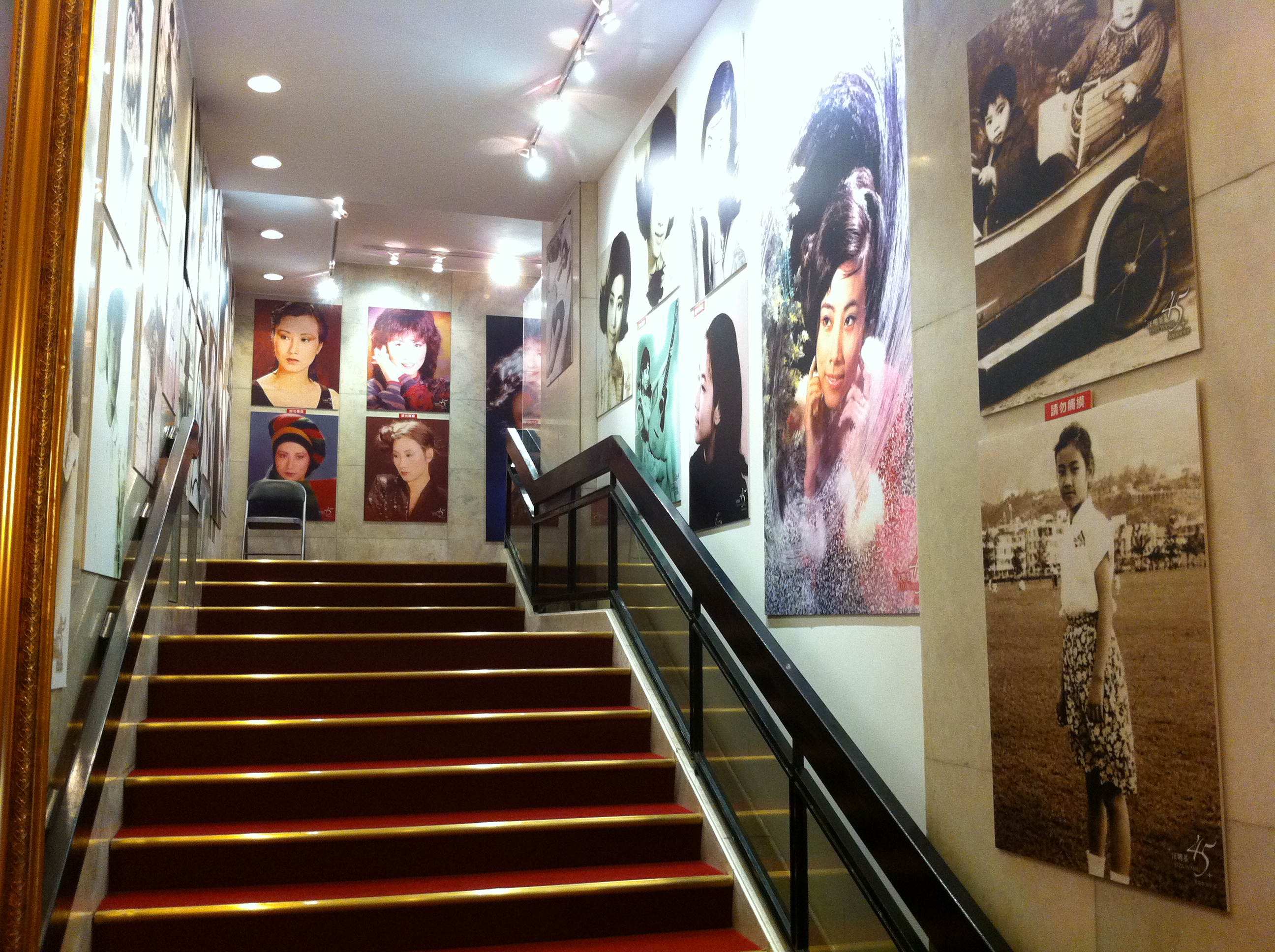 Dr Liza WANG Ming-chun, Elizabeth's Exhibition in Sunbeam Theatre, North Point, Hong Kong in December 2012.